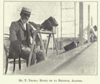 Thomas Thorp, English inventor, engineer and scientific instrument maker, in Algiers, May 1900. Attending a party from the British Astronomical Association to view the total solar eclipse of that time.